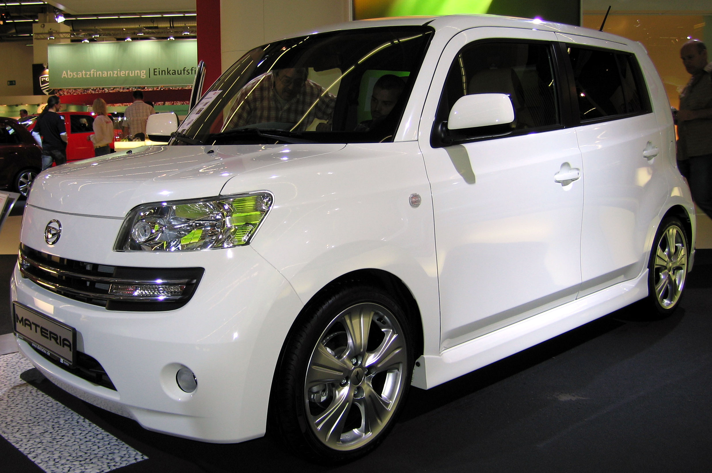 Daihatsu Materia at the IAA 2007